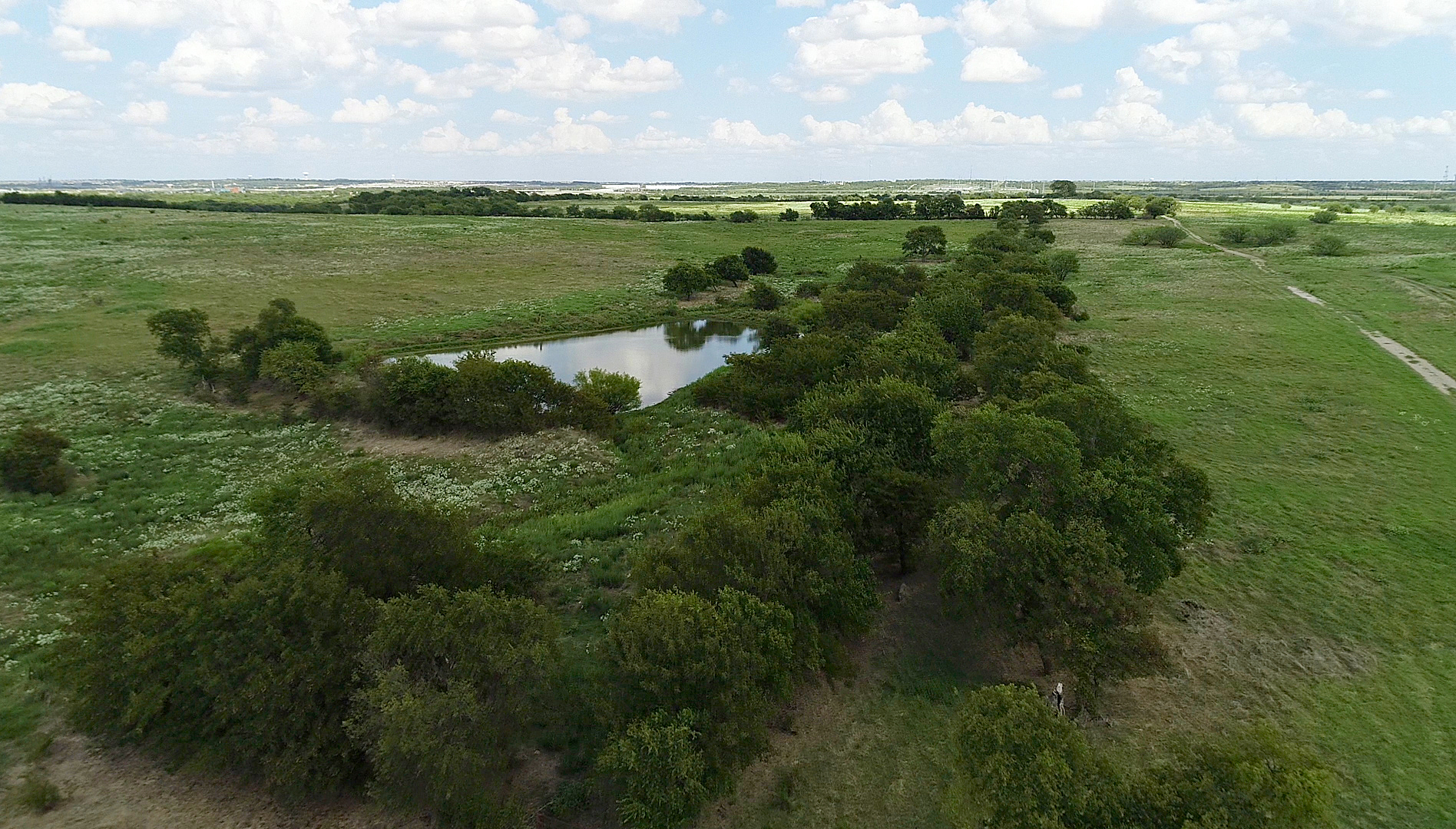 field with pond